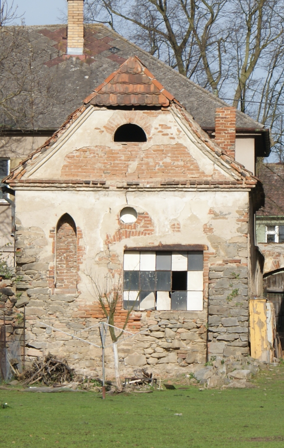 Former synagogue in Zalužany, Příbram district, Czech Republic.